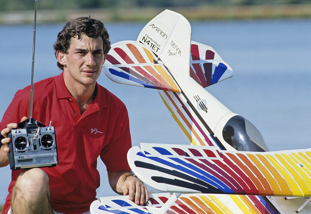 Ayrton Senna with his favourite hobby: aeromodelism